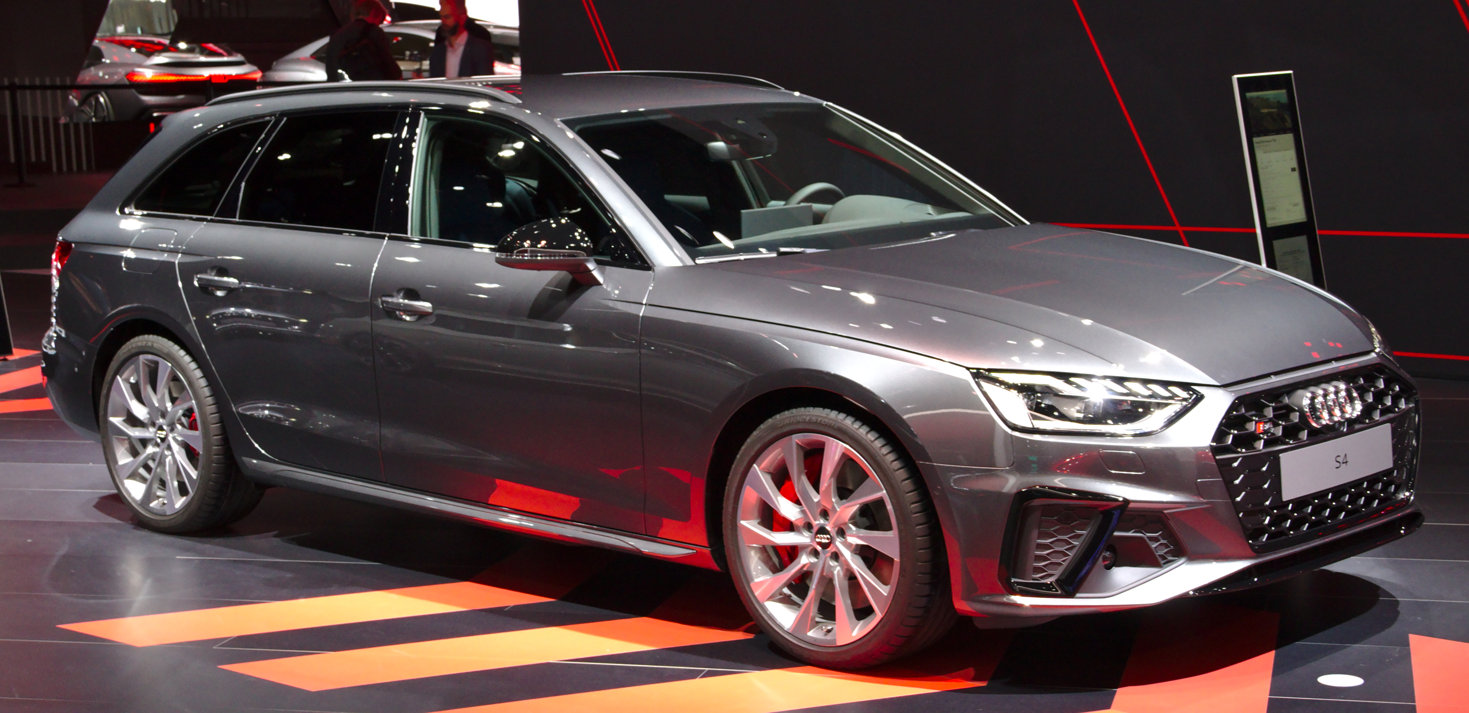 Audi_S4_Avant_B9 at IAA 2019